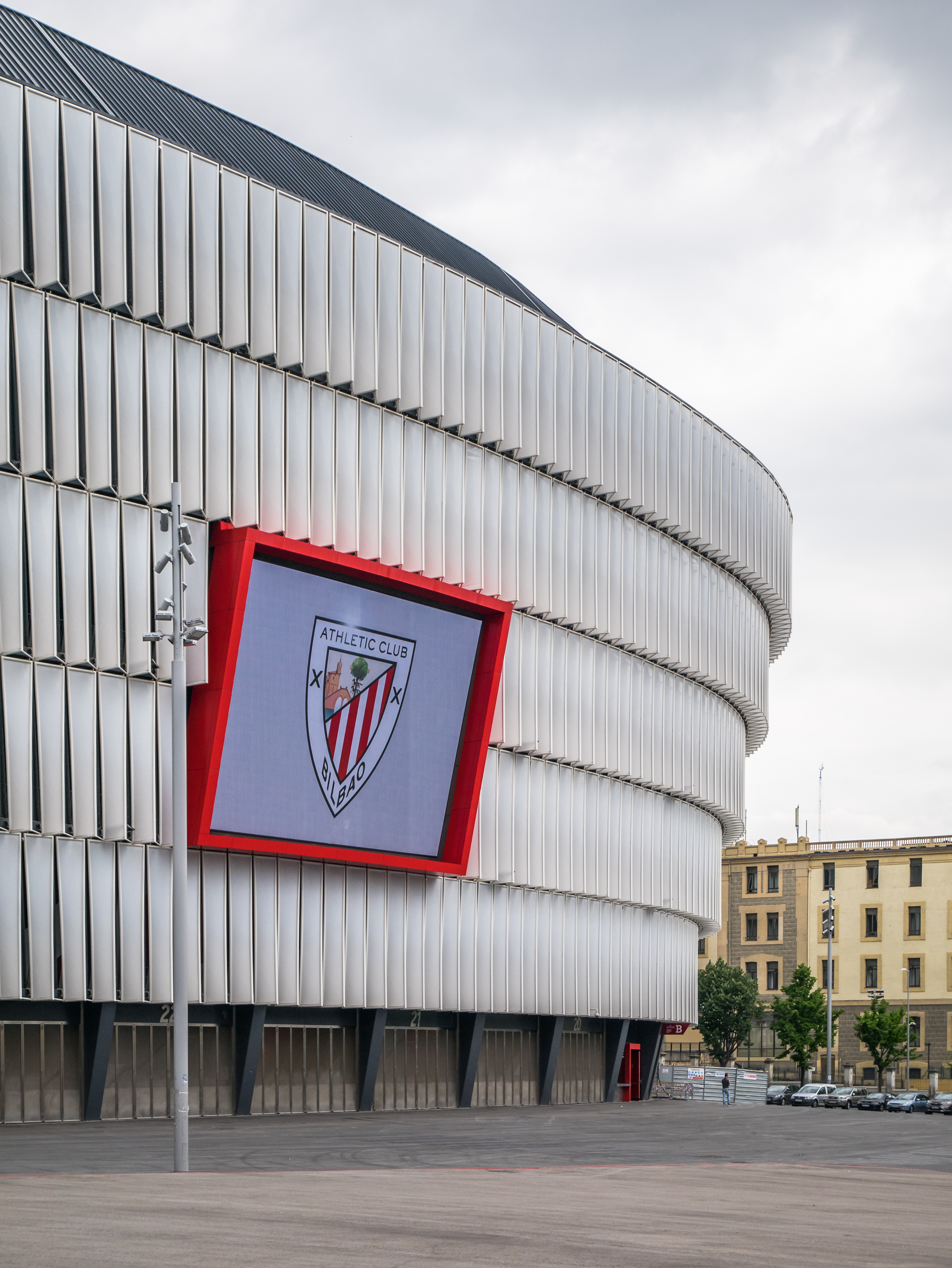 Exterior of the football stadium of the Athletic Club of Bilbao "San Mamés". Bilbao, Biscay, Basque Country, Spain